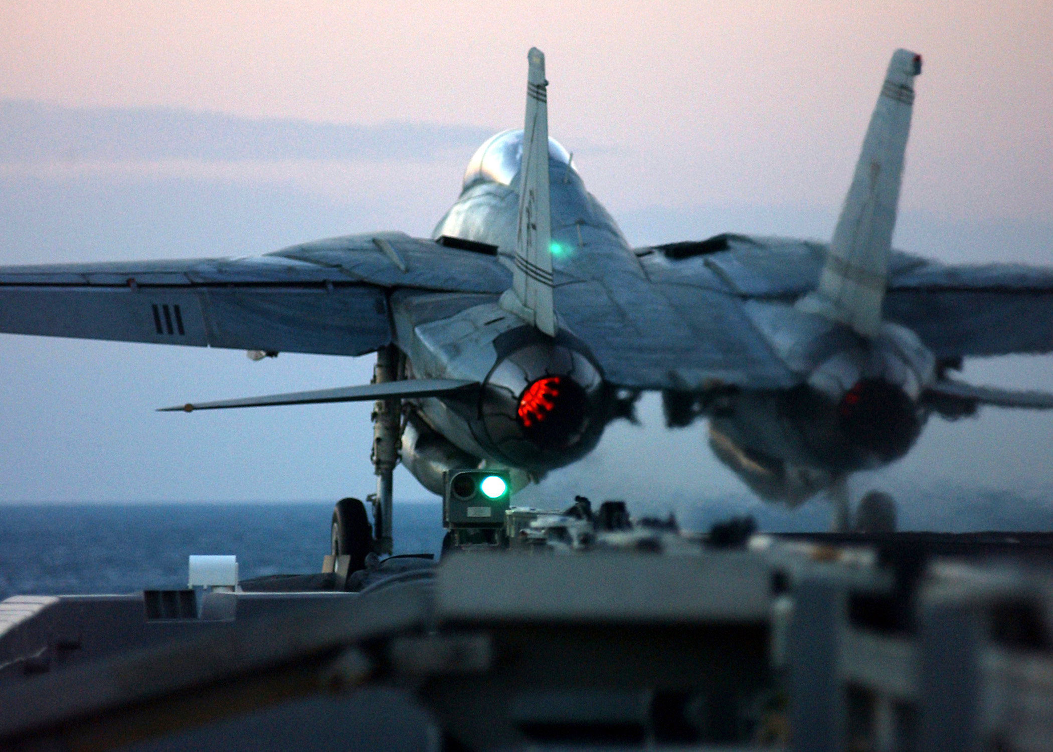 An F-14B Tomcat is catapulted from the flight deck of the aircraft carrier USS Harry S. Truman (CVN 75) during evening flight operations in the Persian Gulf on Dec. 4, 2004. Truman and its embarked Carrier Air Wing 3 are providing close air support and conducting intelligence, surveillance, and reconnaissance missions over Iraq. The Tomcat is assigned to Fighter Squadron 32.